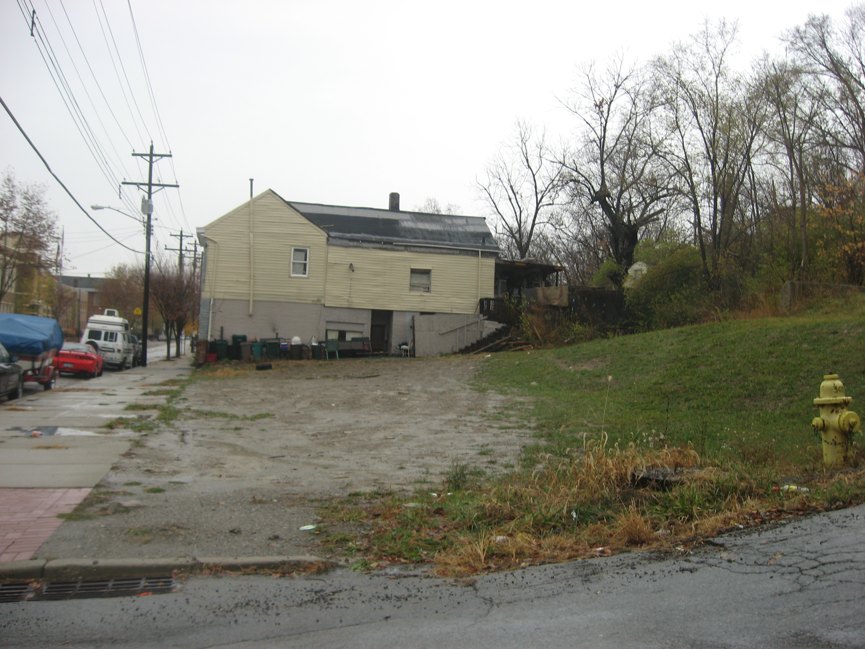 An empty lot at 3964 Eastern Avenue in the Columbia-Tusculum neighborhood of Cincinnati, Ohio, United States. This lot was formerly the location of the Mardot Antique Shop; built in 1889, it is listed on the National Register of Historic Places despite having been destroyed.